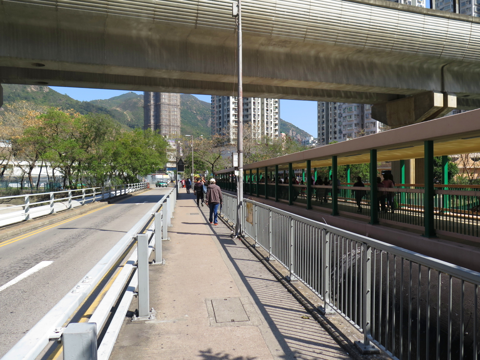 Choy Yee Bridgeo